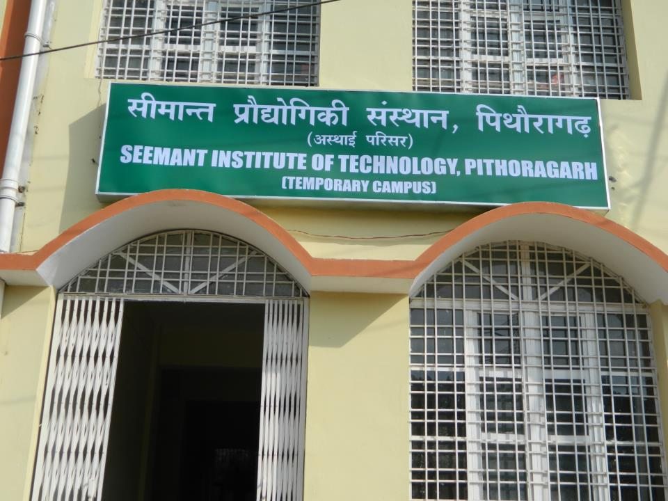 Seemant Institute of Technology